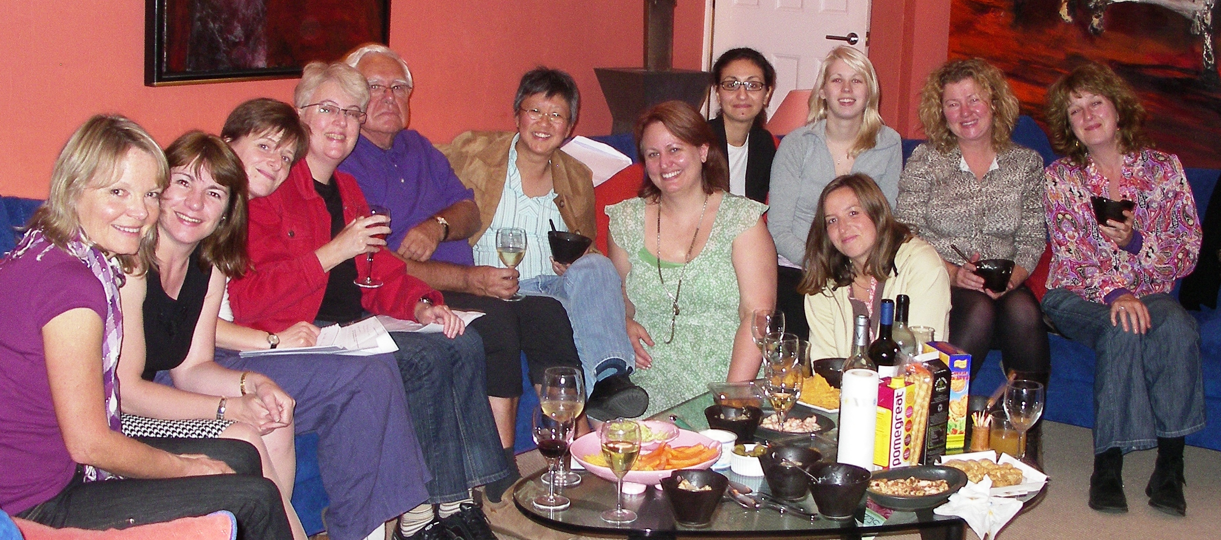 A mixture of writers and photographers who contribute to the community blog, Dulwich OnView, associated with Dulwich Picture Gallery.